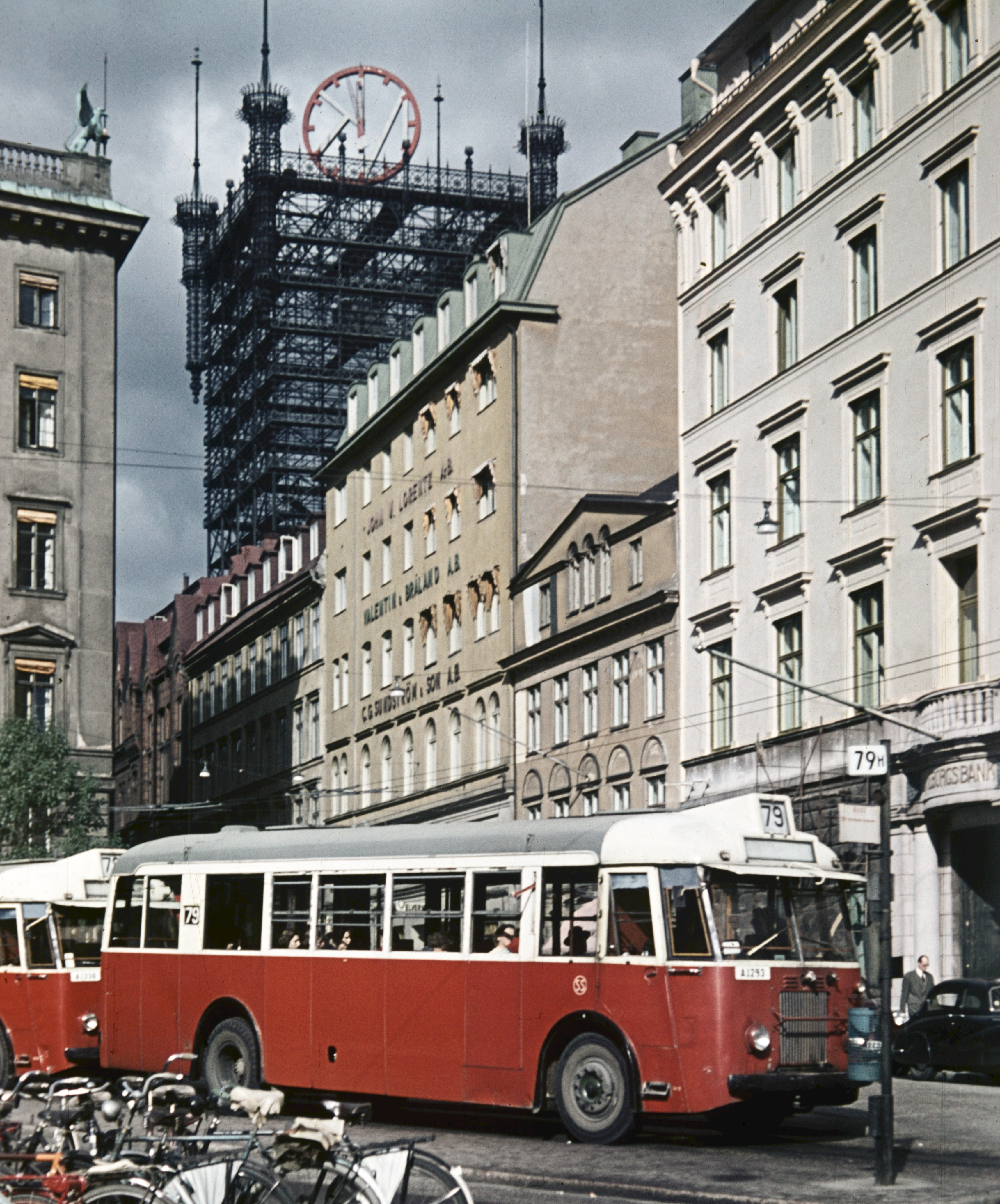 FOTOGRAFIBrunkebergstorg, nordöstra delen. Telefontornet ligger vid Malmskillnadsgatan 30, tornet revs efter brand 1952. 1948-1952FOTOGRAF: Thomssen,Åke.BILDNUMMER:Stadsmuseet i Stockholm